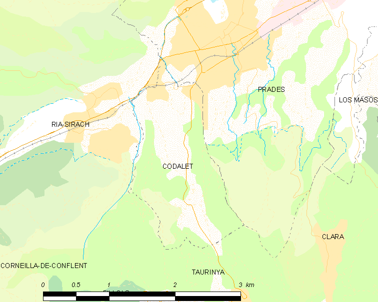 Map of French municipality